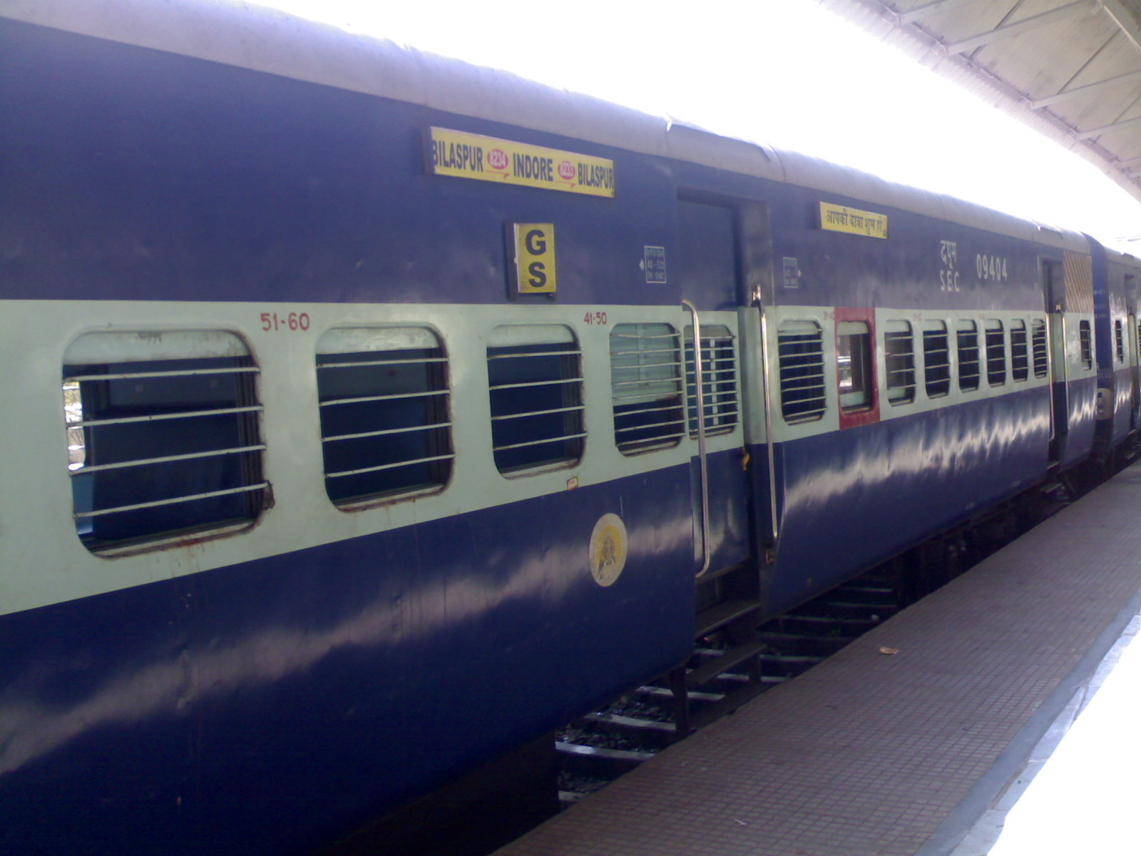 Indore - Bilaspur Narmada Express at Indore Junction.